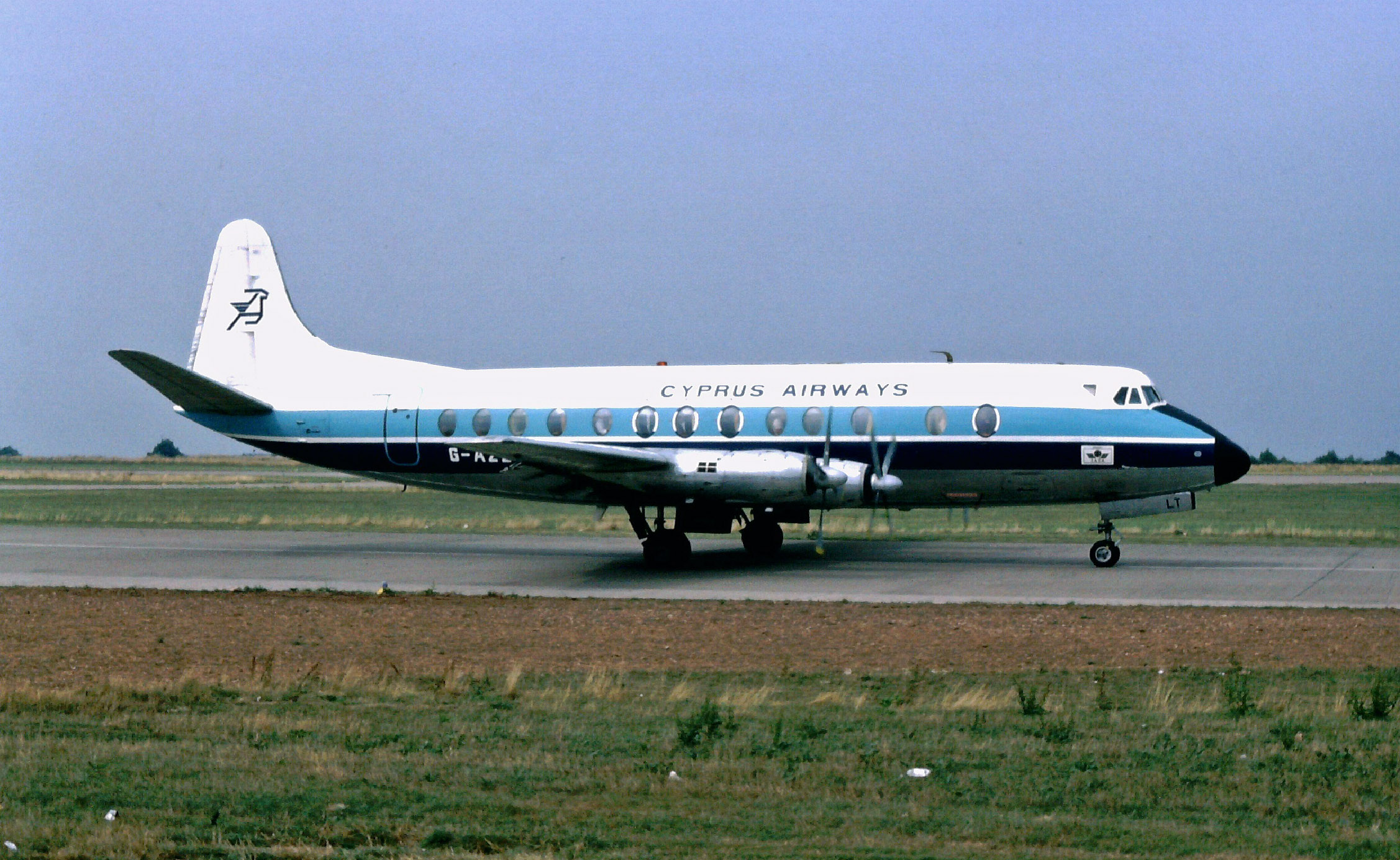 G-AZLT Vickers Viscount 800 Cyprus Airways on lease from British Midland taxing for departure East Midlands Airport 09-08-1975